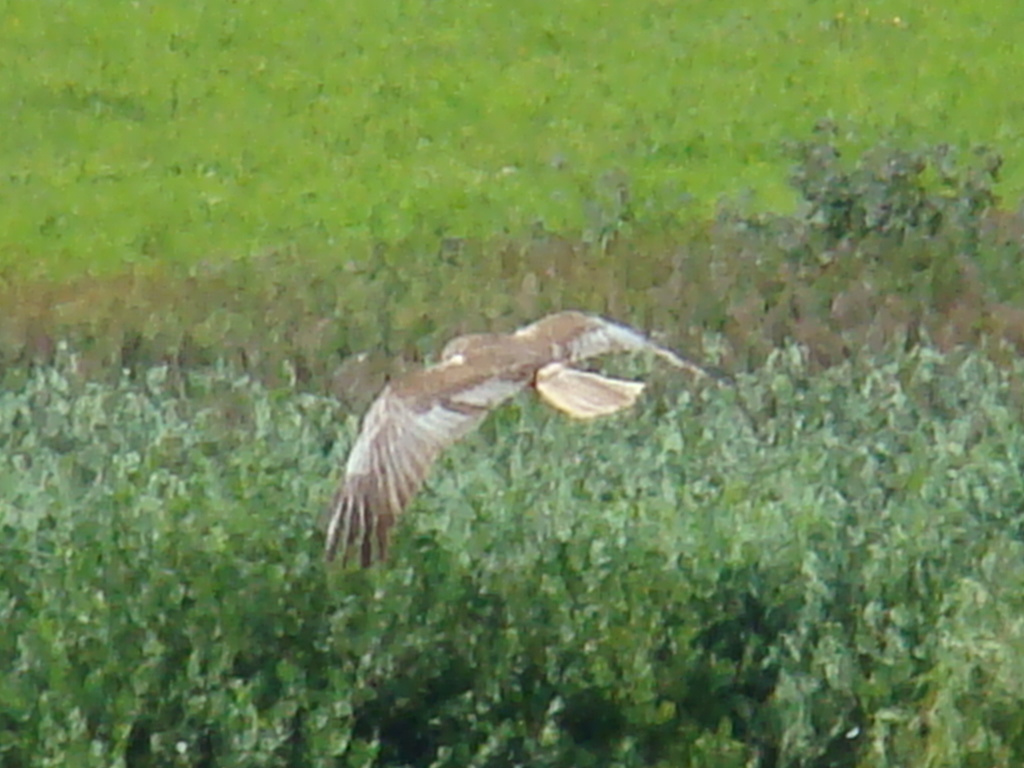 Photo of the Marsh Harrier (Circus aeruginosus) in Raizgiai, Siauliai, Lithuania.